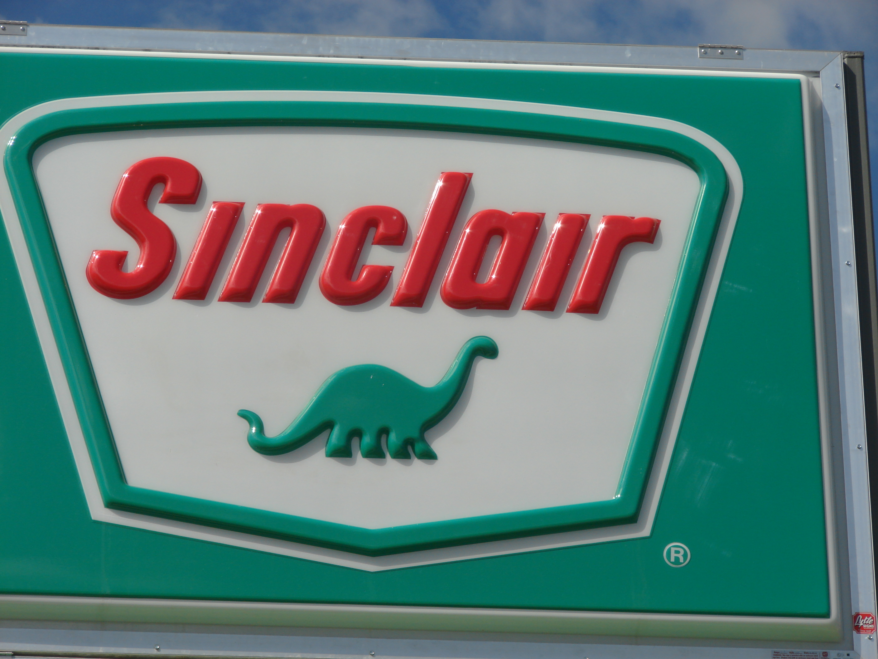 A sign for a Sinclair gas station